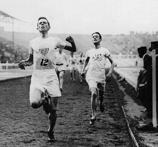 Melvin Sheppard of the USA crosses the finish line to win the final of the 1500 Metres at the 1908 London Olympics from Harold Wilson of Great Britain, with an Olympic Record time of 4 minutes 3.4 seconds. Sheppard also won the 800 Metres a week later with a World Record 1 minute 52.8 seconds.